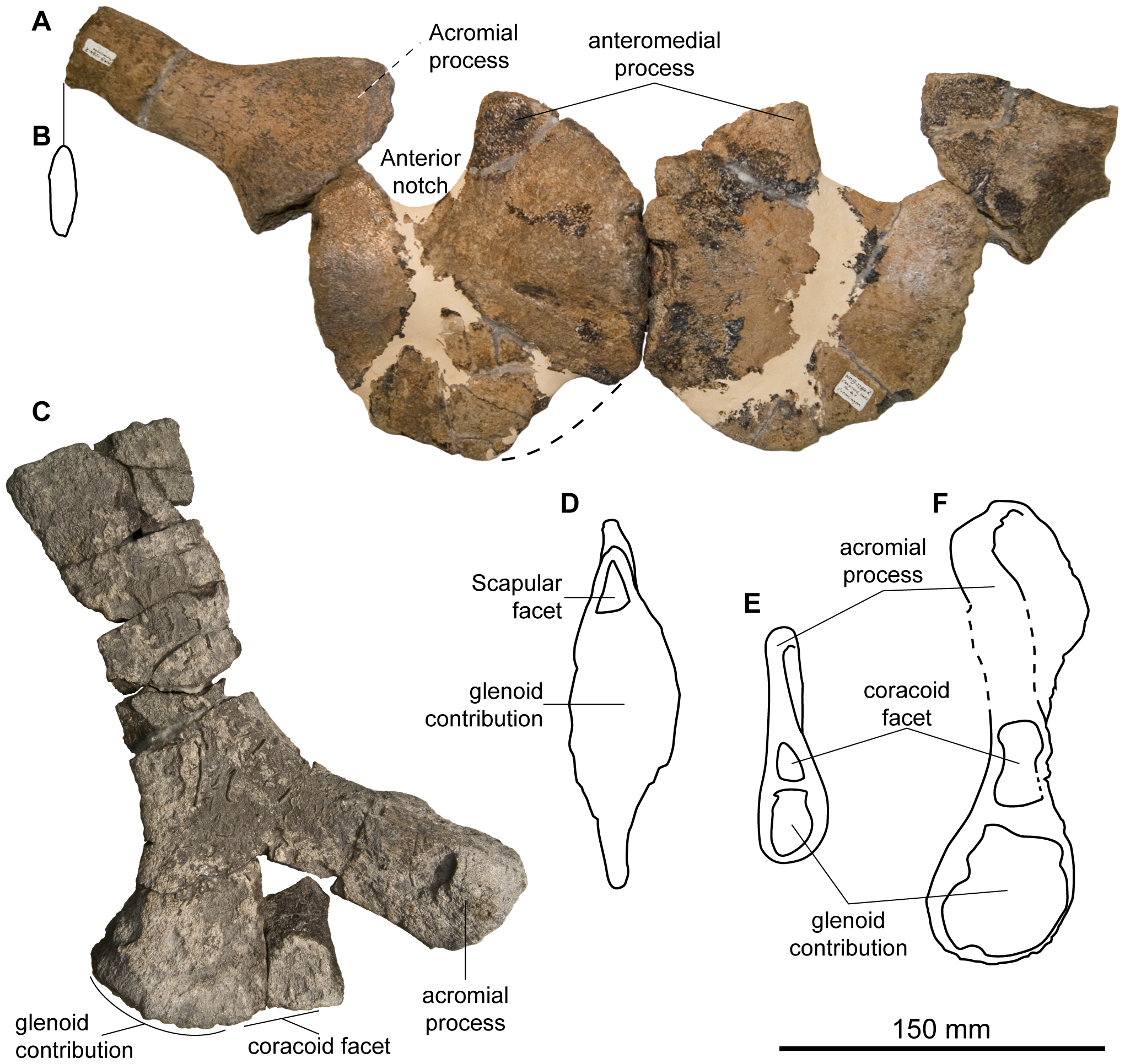 Scapular girdle of Acamptonectes densus. A: coracoids and scapulae of SNHM1284-R in ventral view. B: Outline of the cross-section of the scapula, showing its flattened shape. C: right scapula of GLAHM 132588 (holotype), in ventral view. D: lateral surface of the right coracoid of SNHM1284-R. E,F: comparison of the medial surface of the right scapula of SNMM1284-R (E) and of GLAHM 132588 (holotype; F).